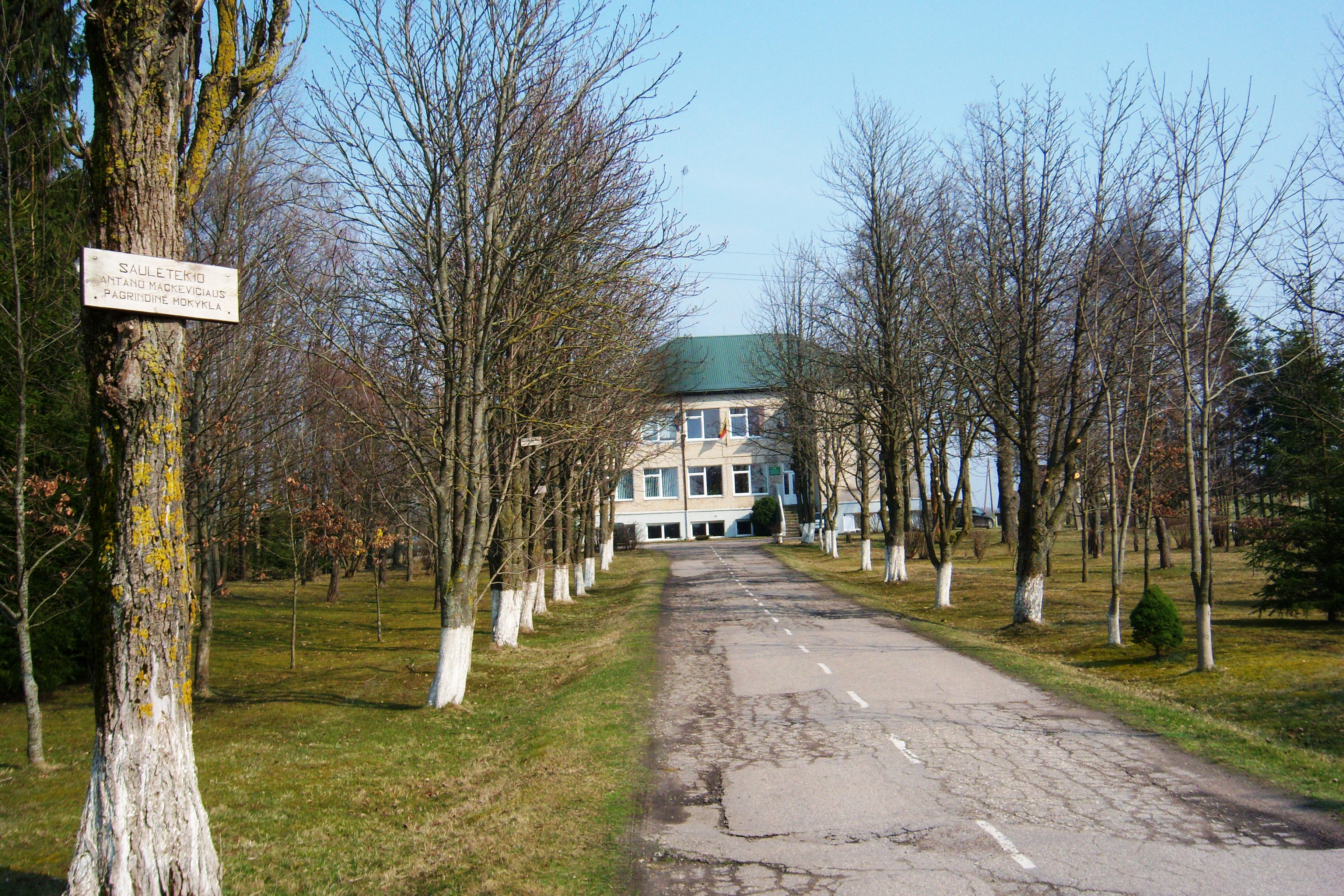 Basic school, Saulėtekiai, Kaunas district, Lithuania